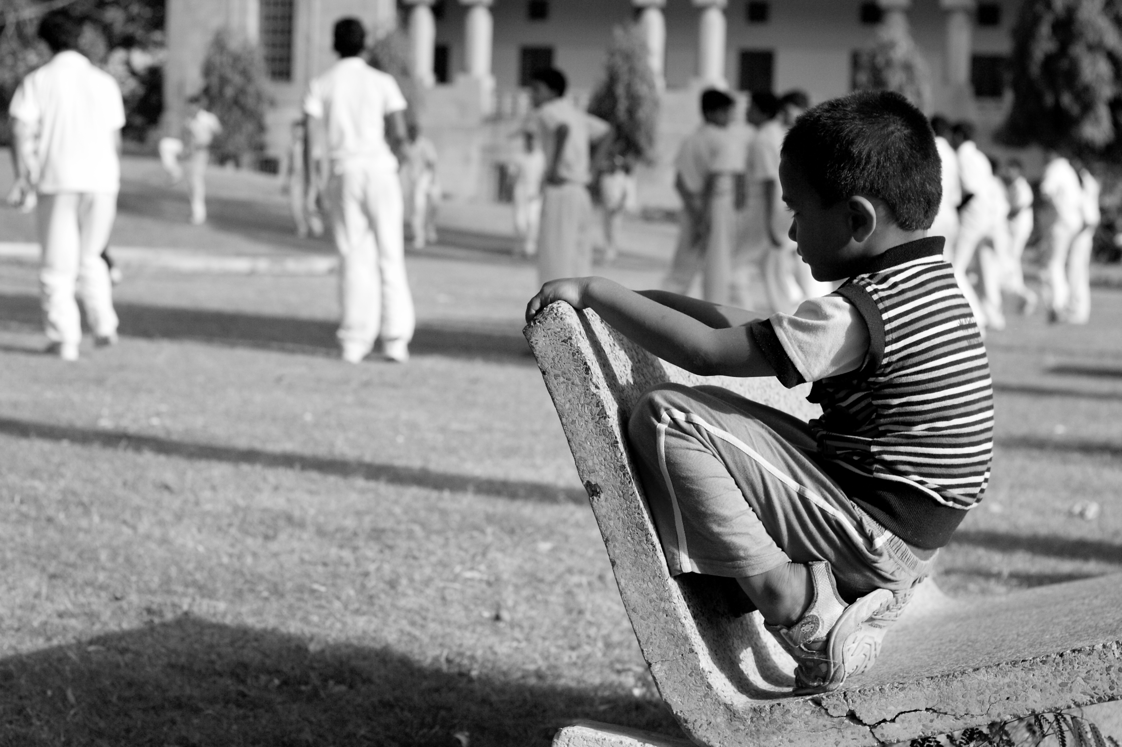 Street photography - photograph of a child watching children play on the grounds of Arts College at Osmania University, Hyderabad, AP - India.